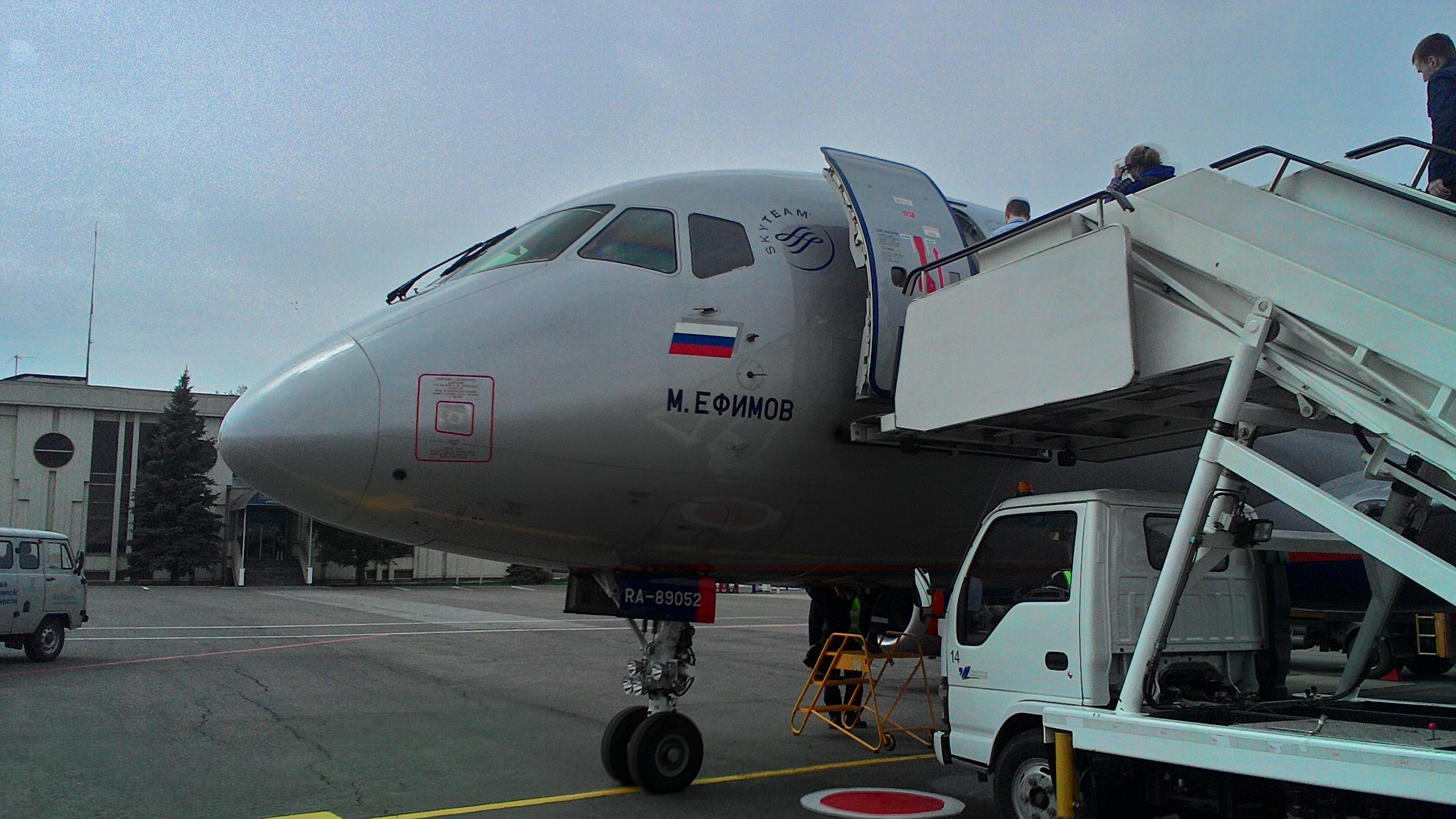 Sukhoi Superjet 100-95 (RA-89052) at Saratov Tsentralny Airport